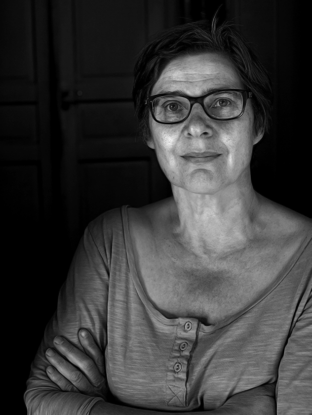 Ritva Kovalainen, photographer